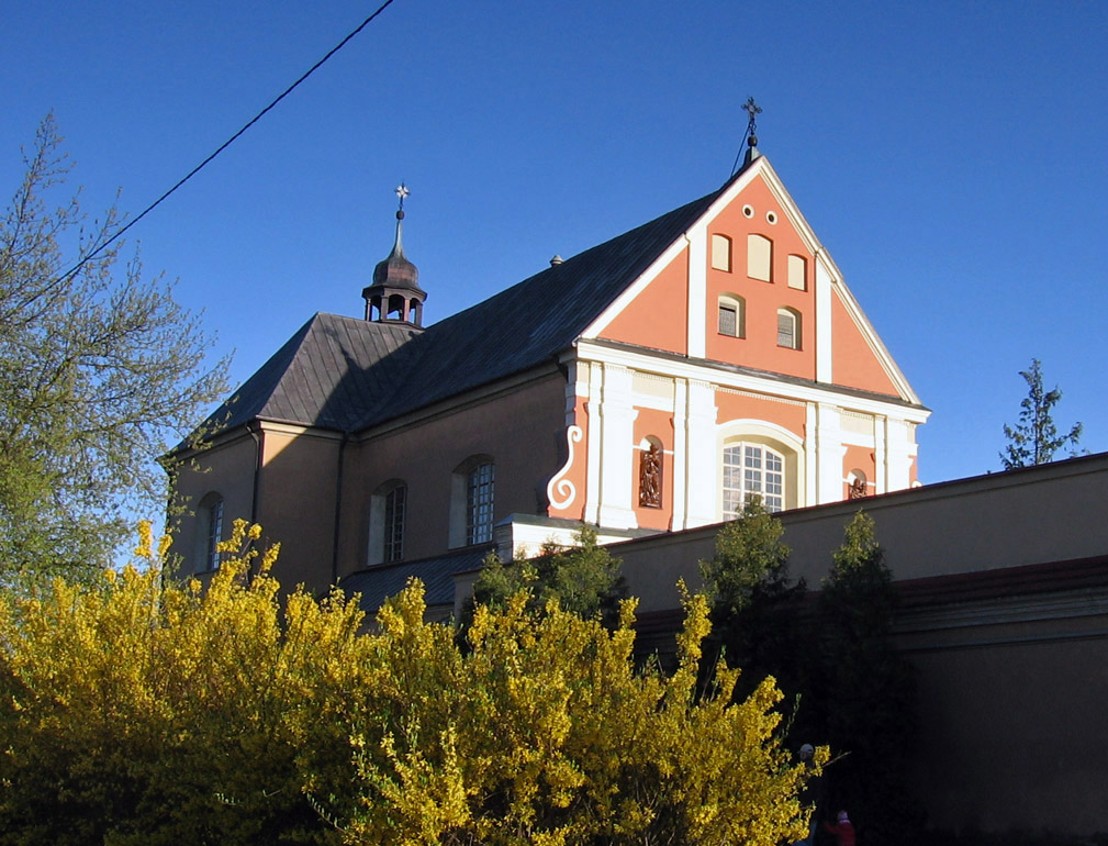 City of Ostroleka (Poland), Saint Anthony's church.